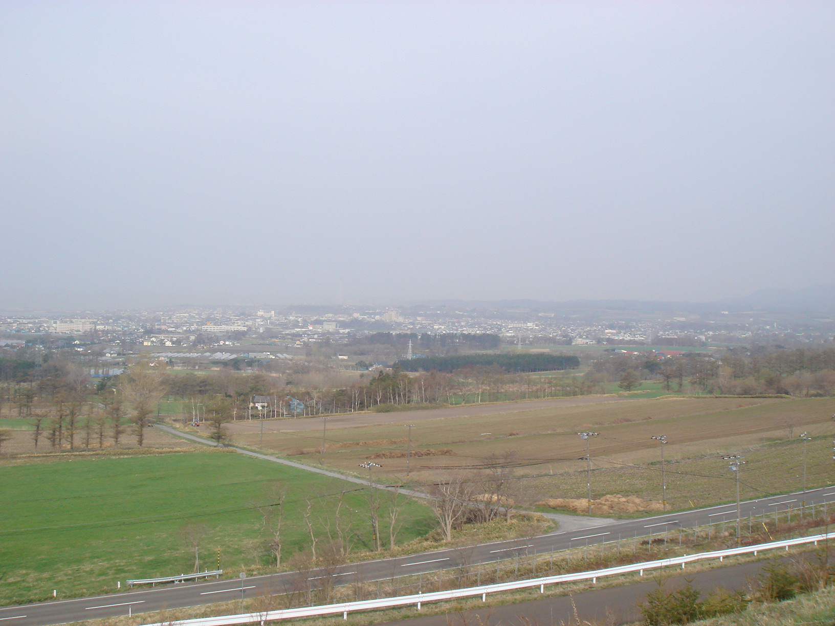 Hokkaidō Expressway Usuzan Service Area